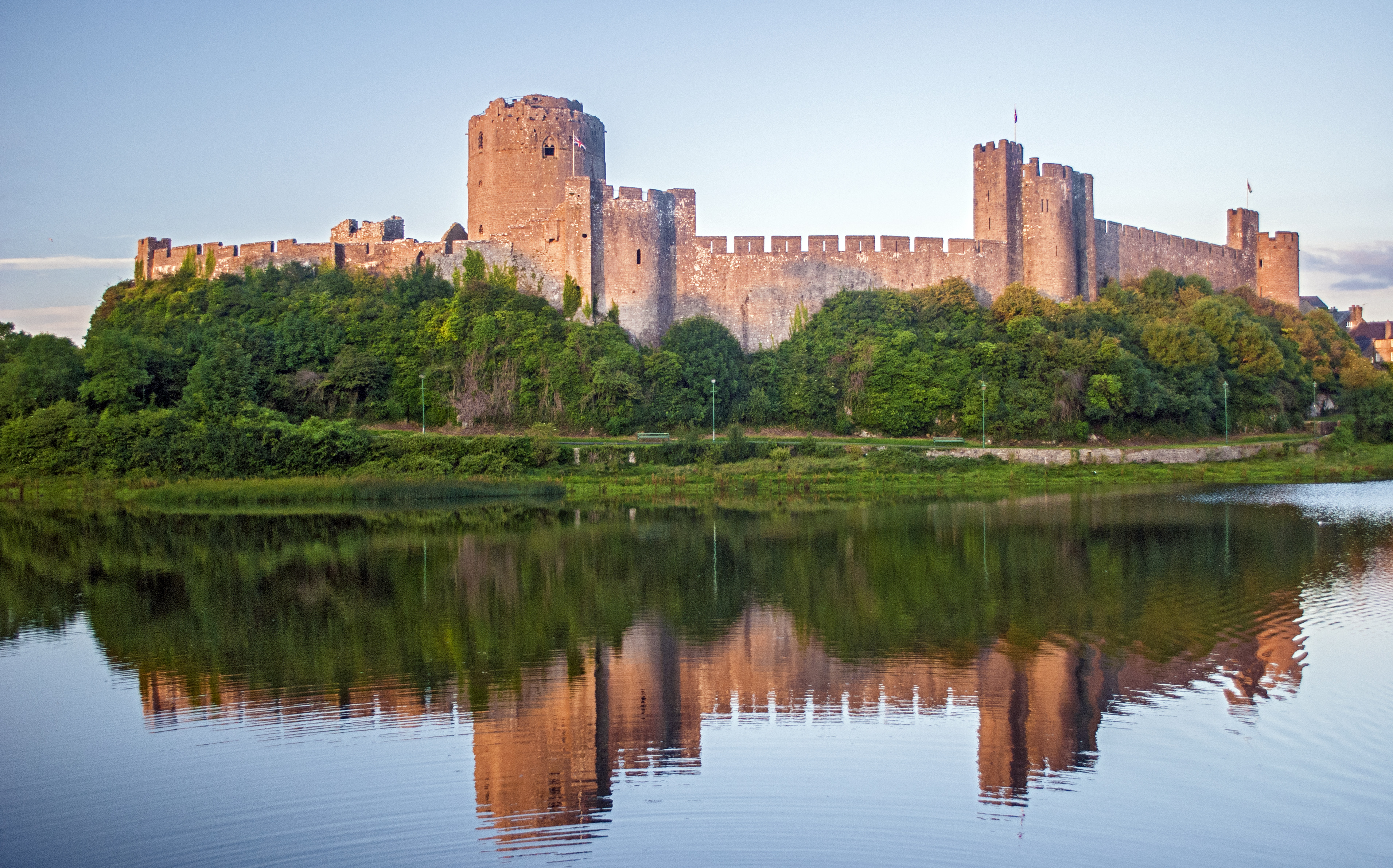 Pembroke Castle at dusk